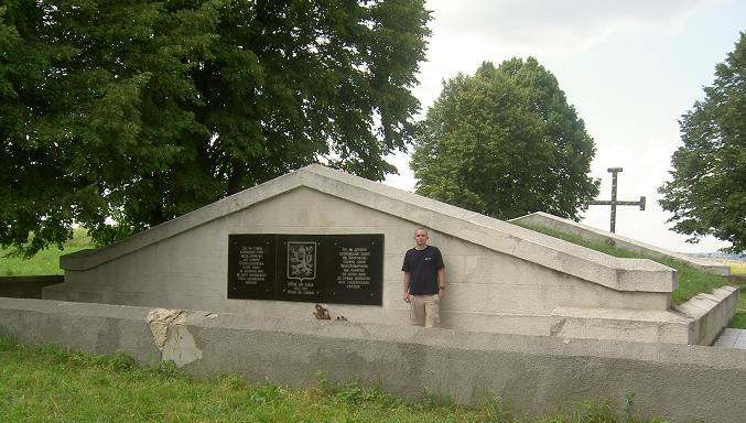 Memorial commemorating Czechoslovak legionaries fallen in the battle of Zborov, located in the village of Kalinivka, Ukraine (back part of the local cemetery).